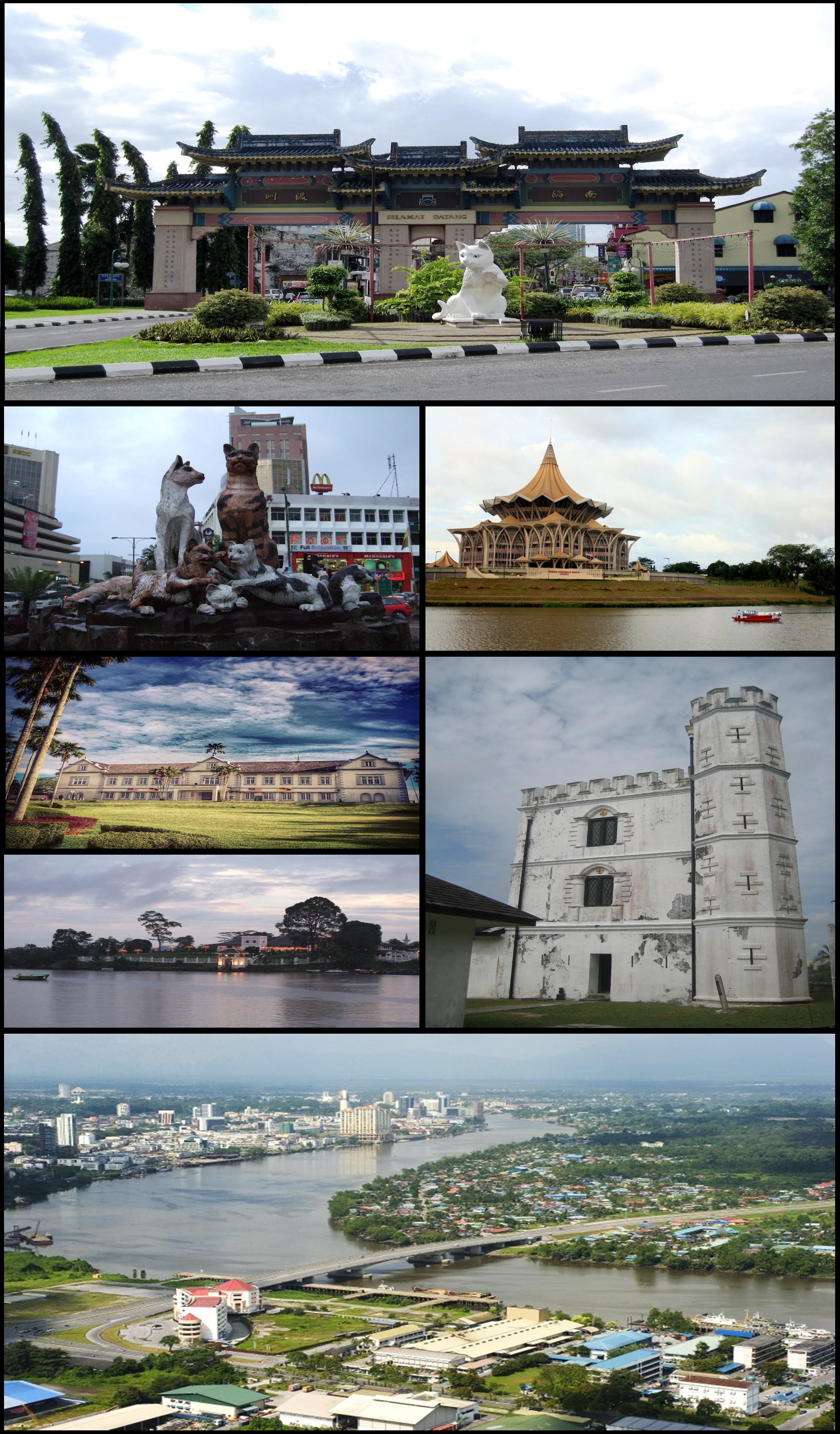 A composite image of major attractions in Kuching.